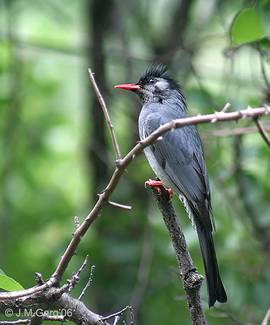 Black bulbul Hypsipetes leucocephalus race psaroides in Kullu District of Himachal Pradesh, India.